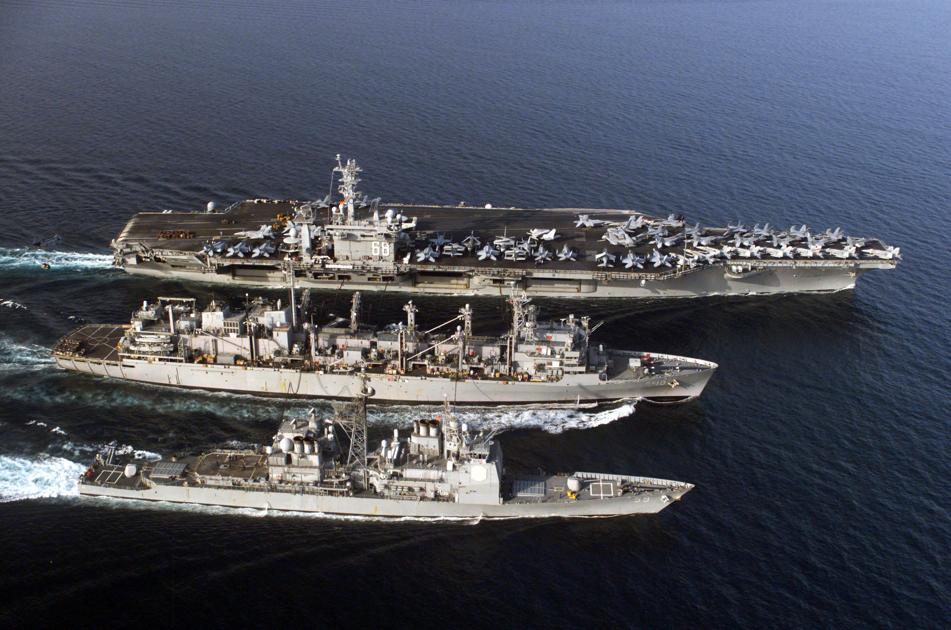 030410-N-1974E-003 The Arabian Gulf -- The aircraft carrier USS Nimitz (CVN 68), guided missile cruiser USS Princeton (CG 59), and fast combat support ship USS Bridge (AOE 10) participate in an underway replenishment (UNREP) while deployed in support of Operation Iraqi Freedom. Operation Iraqi Freedom is the multi-national coalition effort to liberate the Iraqi people, eliminate Iraq’s weapons of mass destruction, and end the regime of Saddam Hussein.